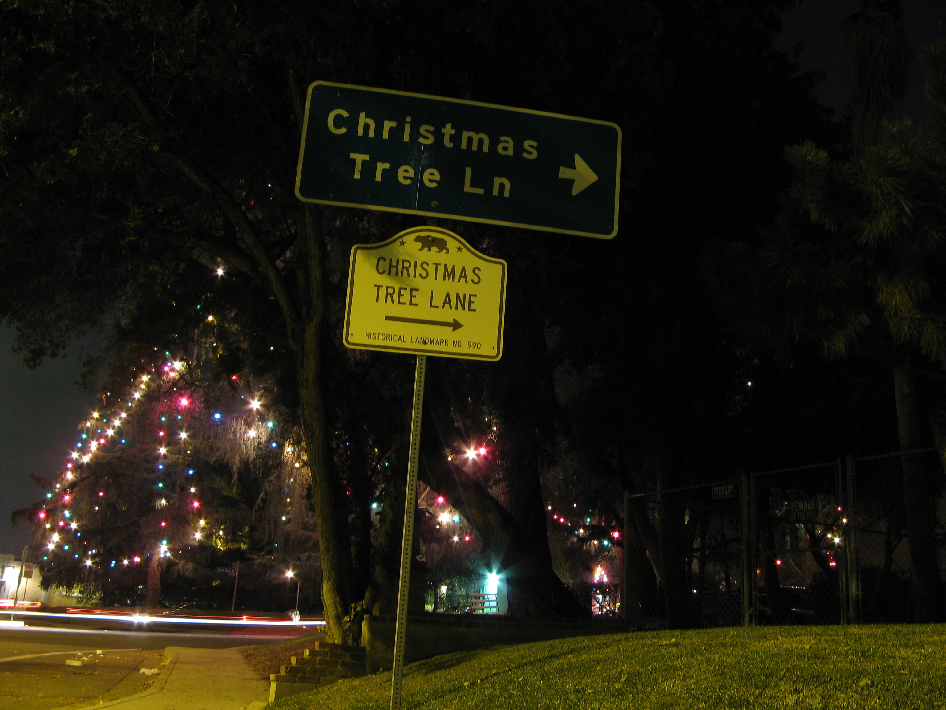 Road and historical landmark sign of the Christmas Tree Lane on Woodbury Road in Altadena, California. Located on Woodbury near the junction of Santa Rosa Avenue, Altadena